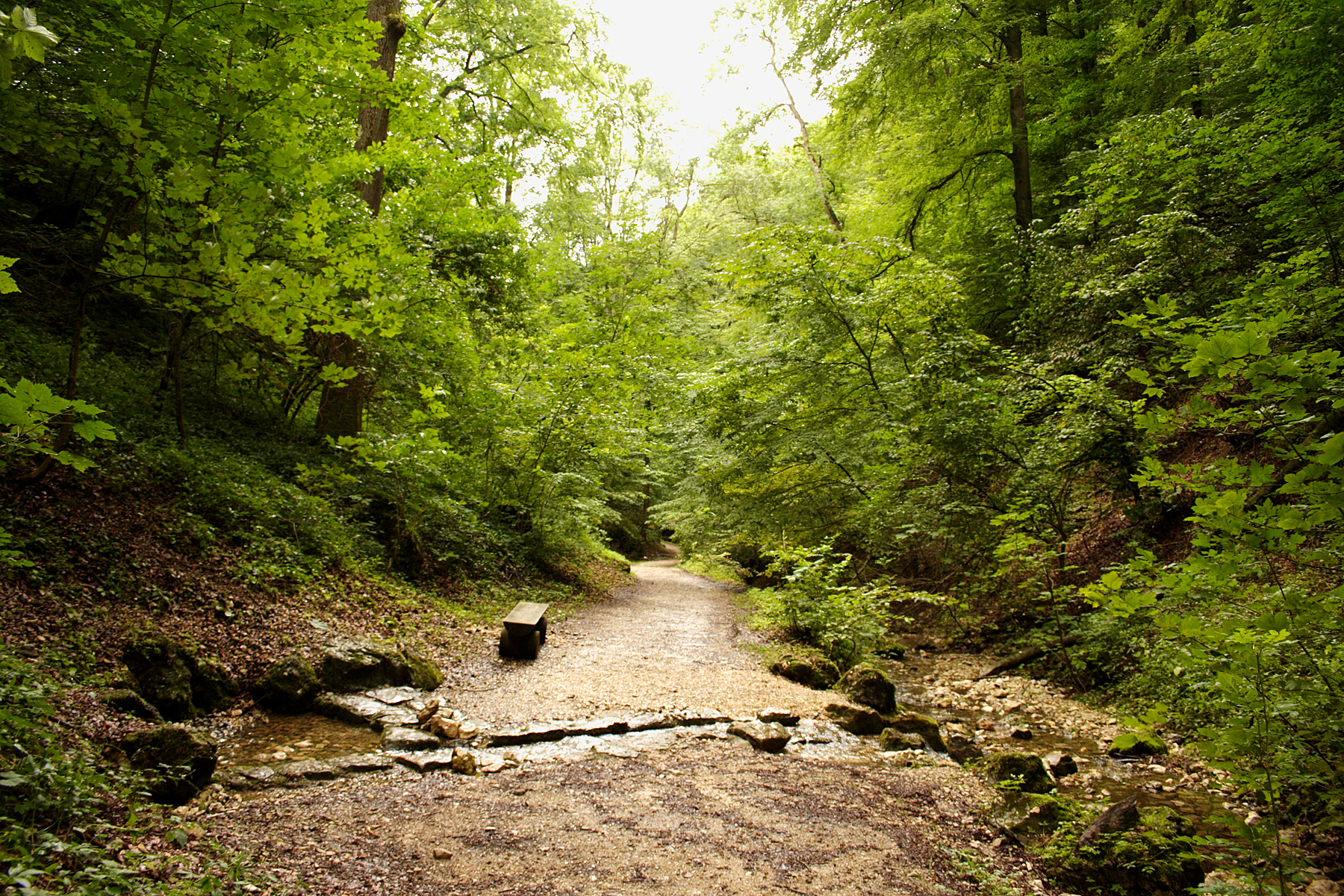 A small karst spring above the main group of bed joint karst springs of river Echaz. The slopes of the V-shaped valley are perforated with such little karst springs. A strong headward stream erosion of the Echaz (tributary to Neckar and Rhine) has deeply cut into the "Albtrauf", (escarpment of the Swabian Alb).